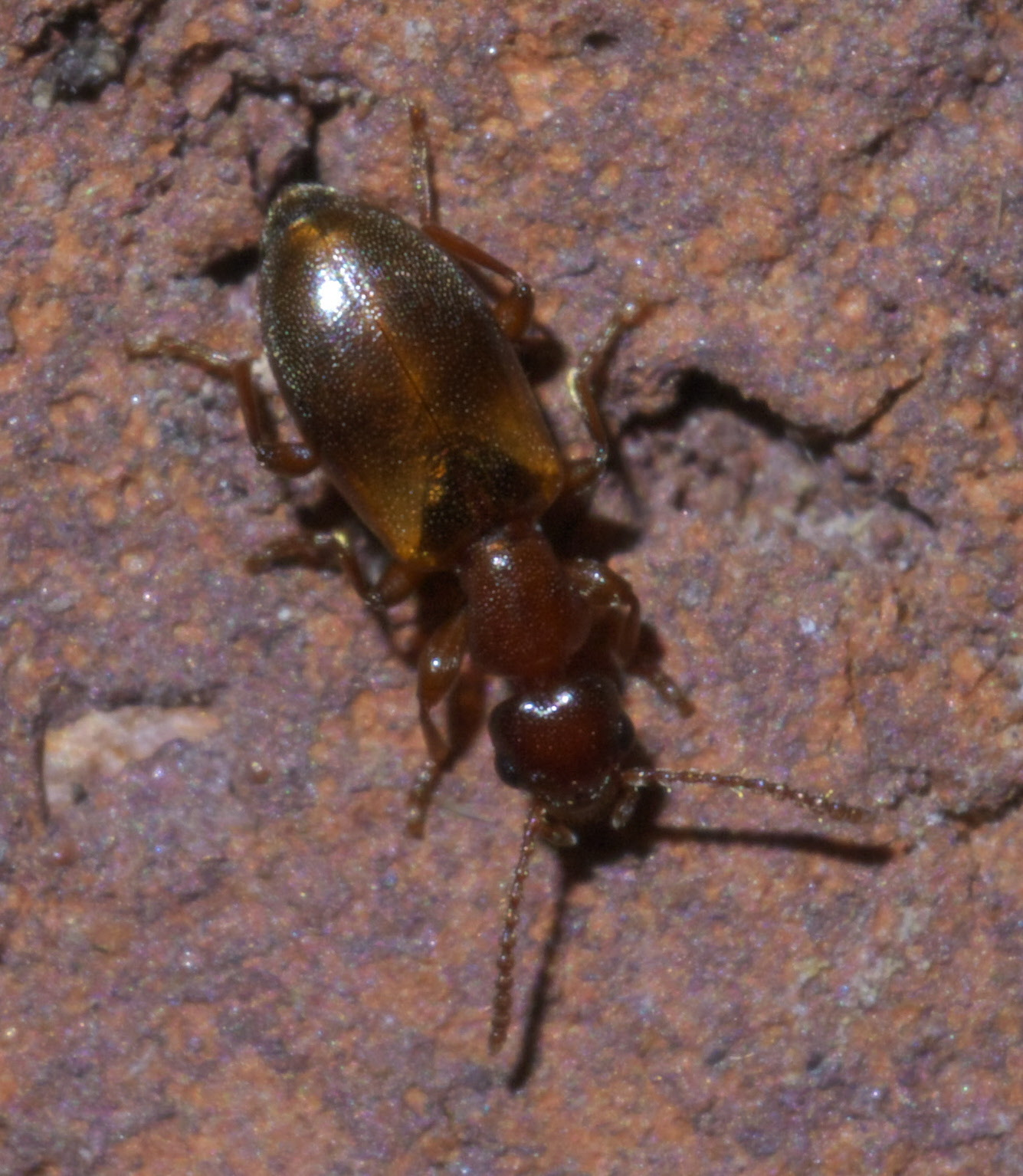 Omonadus floralis, Narrow-necked Grain Beetle, ID Confidence: 98